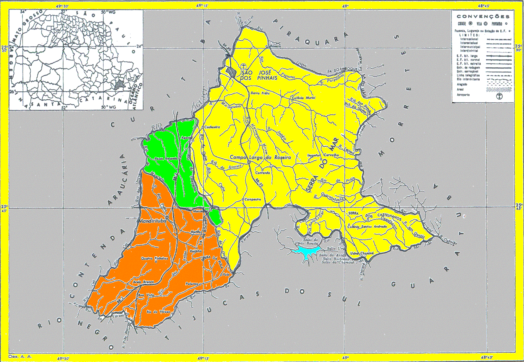 Map of the municipality of São José dos Pinhais em 1959, state of Paraná, Brazil